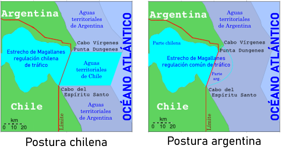 Two versions of the east mouth of the Strait of Magellan during the Beagle conflict. Spanish text.